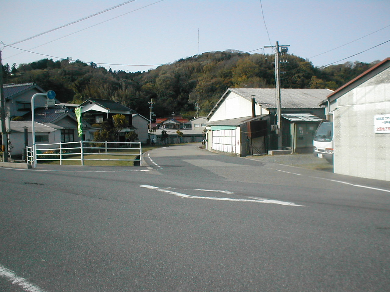 Hamada Port Line trace